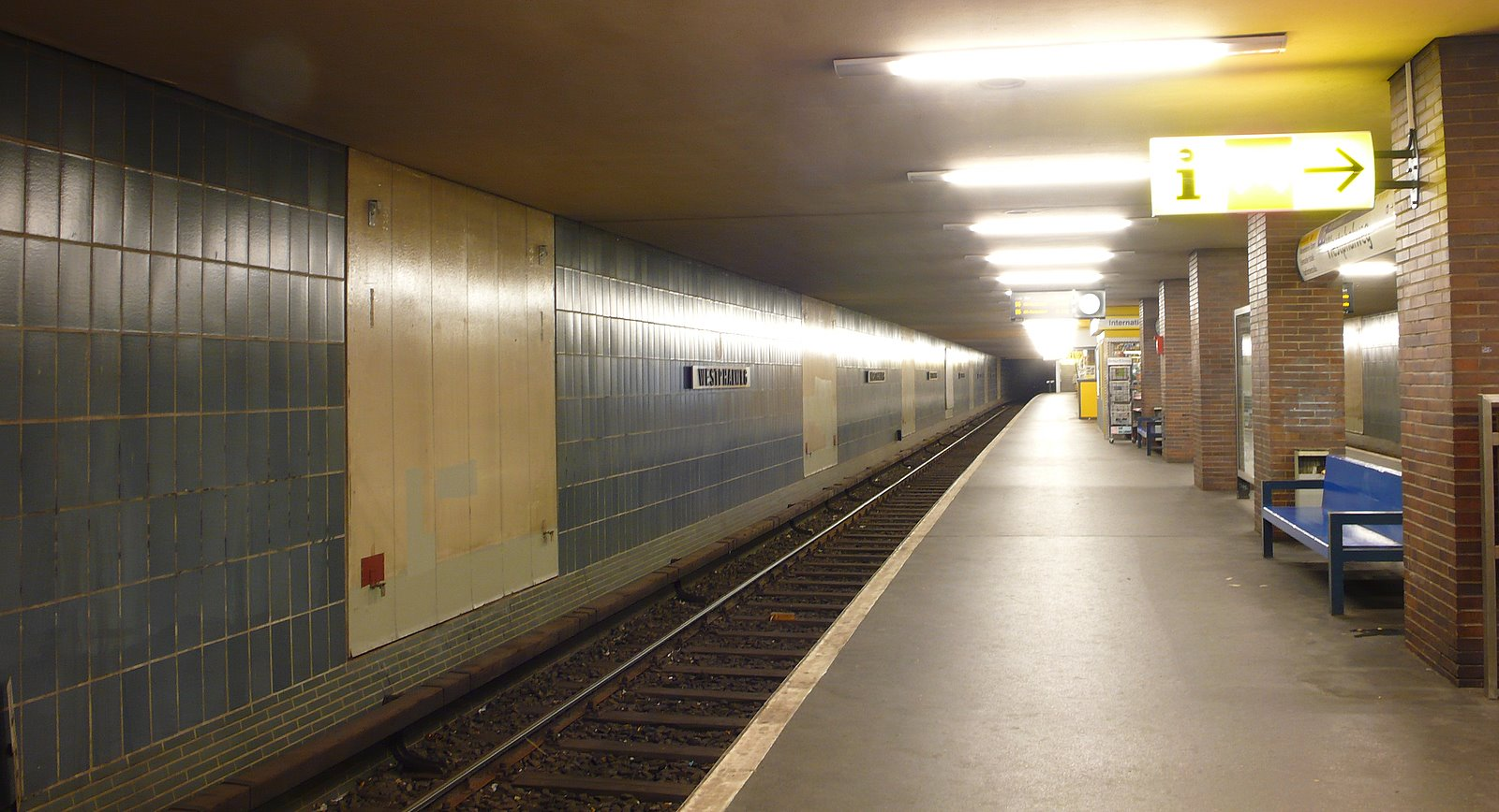 Westphalweg